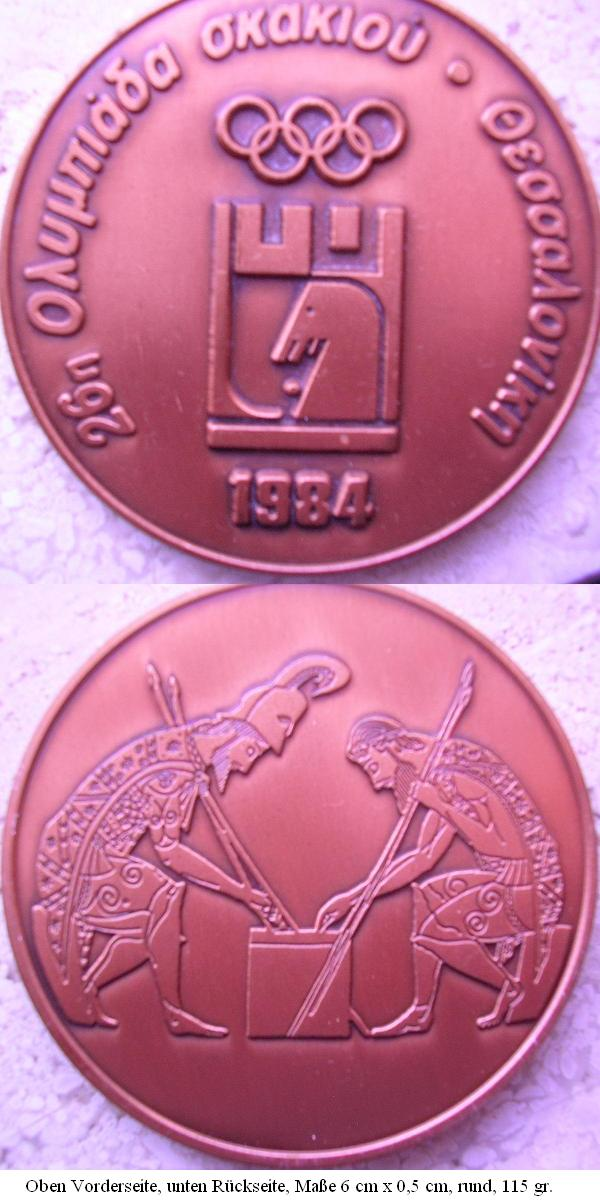 plaquette 26th Chess Olympiad 1984 Thessaloniki